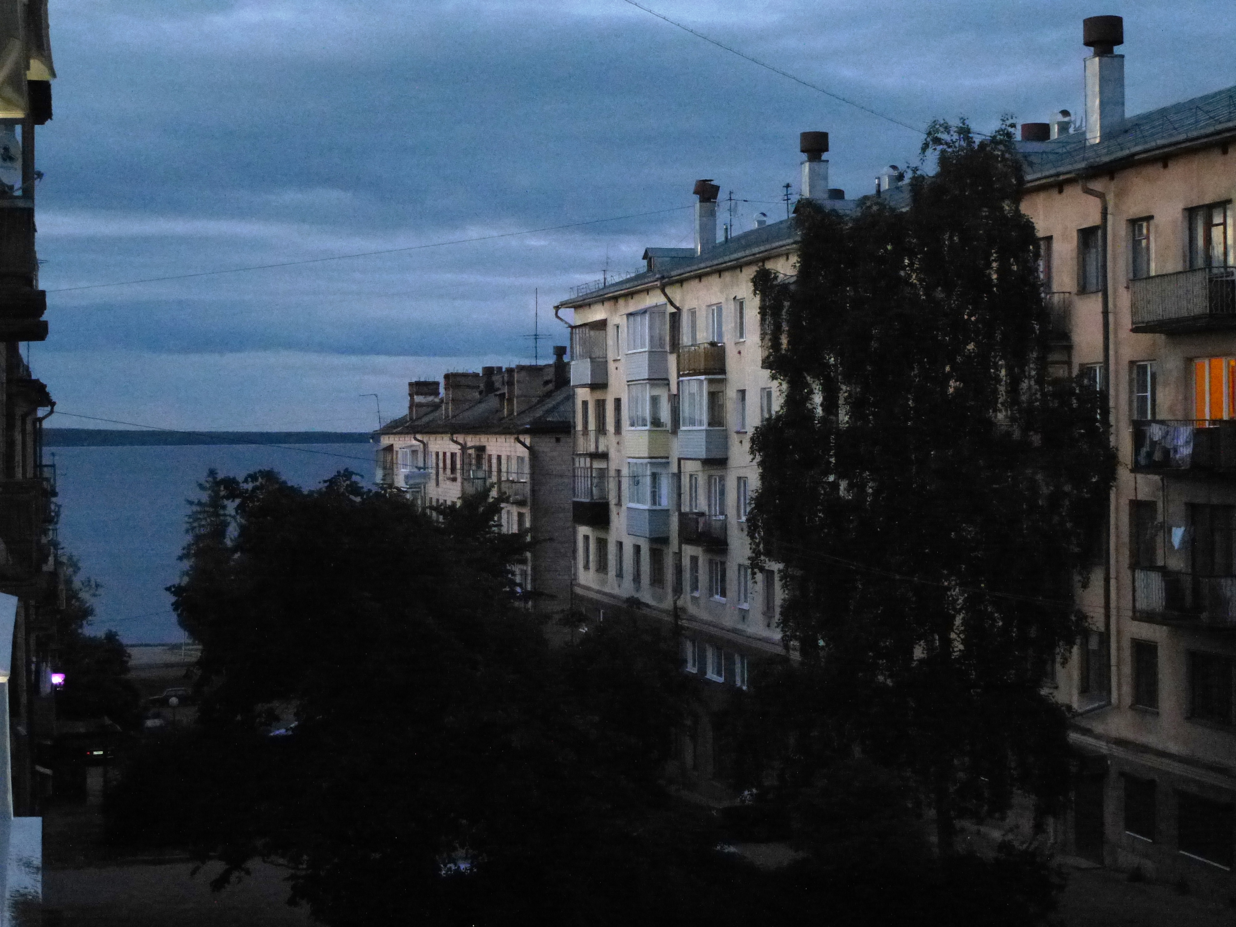 White night in Petrozhavodsk (Sverdlov street, view of Onega lake), June 18, 2013, 00:17 Moscow time